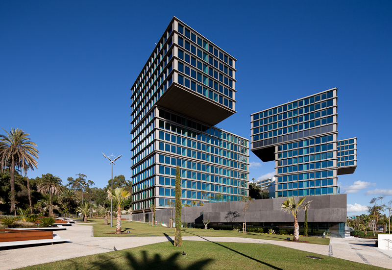 Estoril Sol Residence by Gonçalo Byrne Arquitectos Photography: Joao Morgado - Architectural Photography